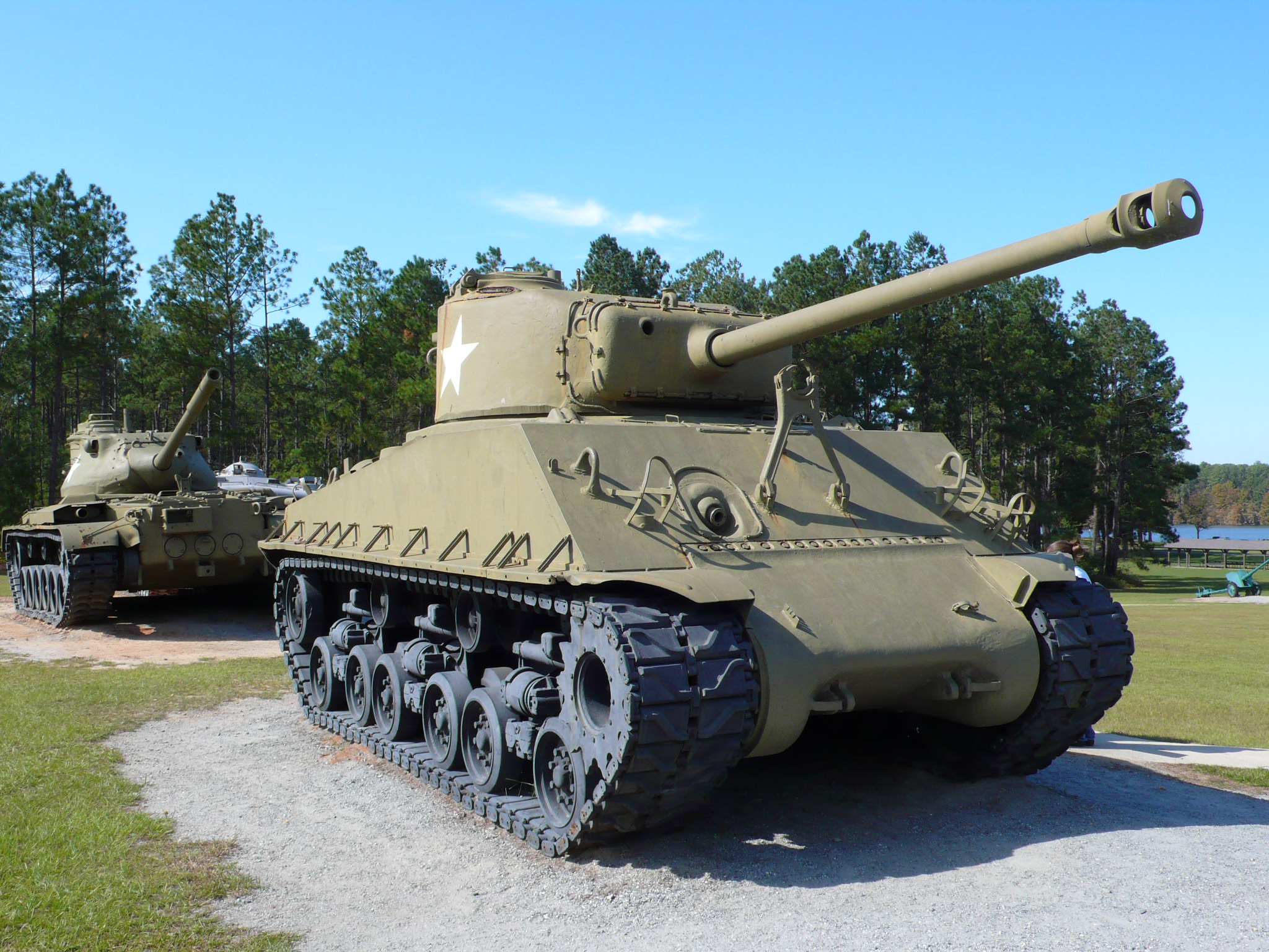 Tanks on display at Georgia Veterans State Park near Cordele, Georgia, USA. 31°57′32″N 83°54′41″W / 31.95889°N 83.91139°W